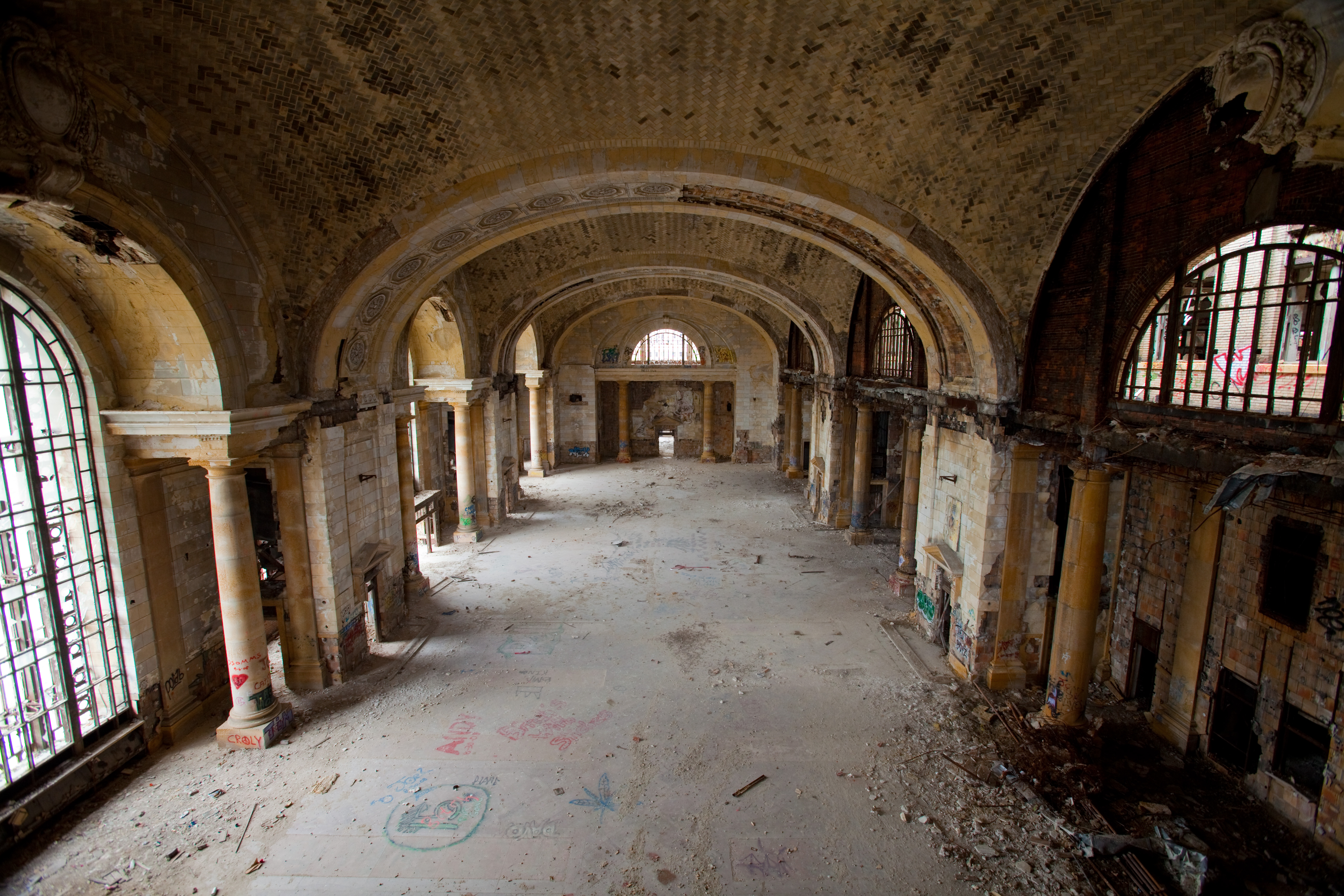 Main Hall of the Michigan Central Train Station, taken from the southern balcony.